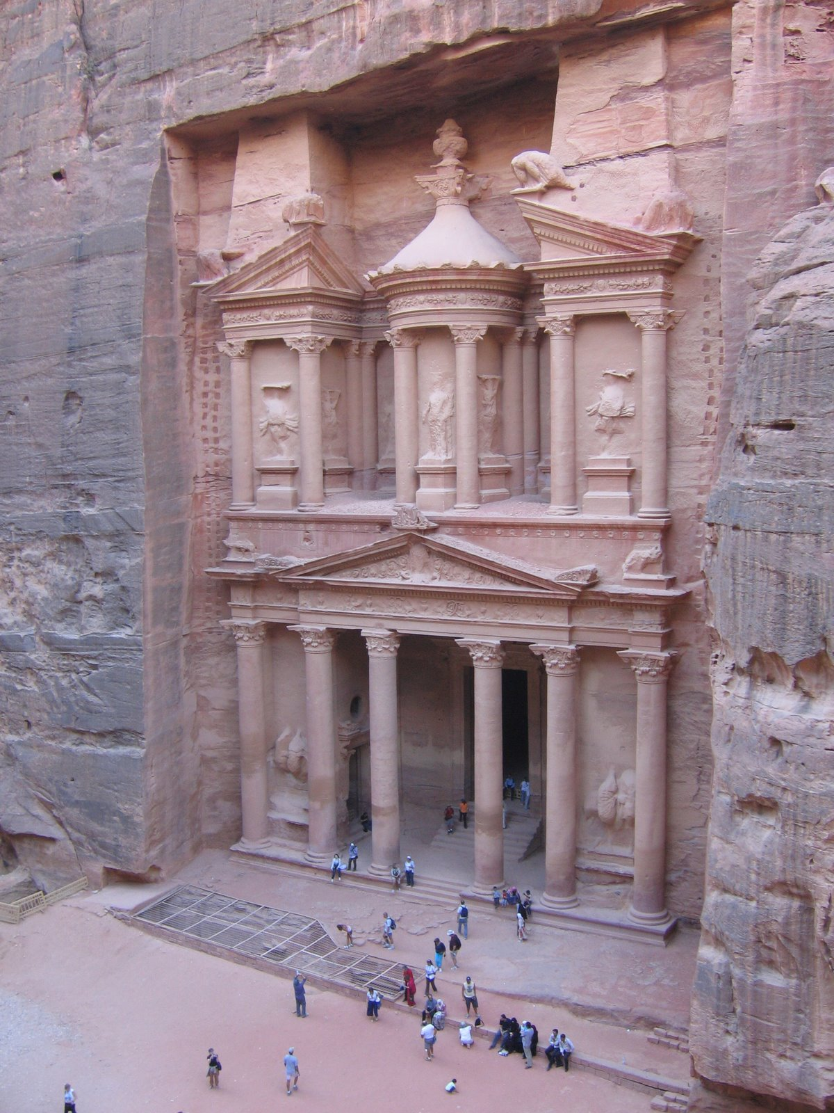 Al Khazneh in Petra.